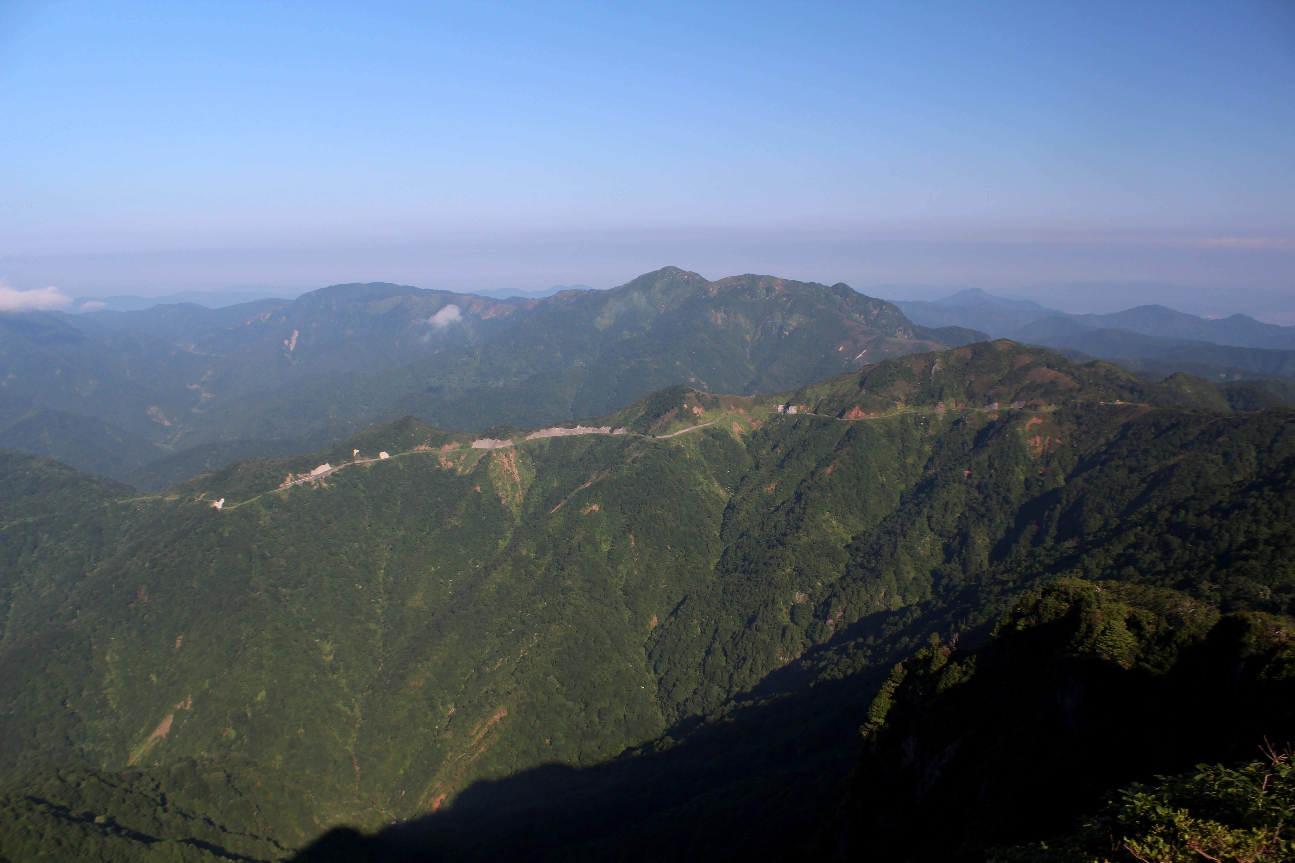 Mount Kanaksa and Kanmuriyama Pass seen from Mount Kanmuri in Fukui Prefecture and Gifu Prefecture, Japan.